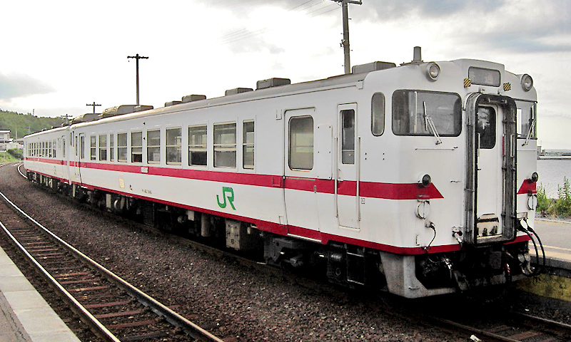 JR East Kiha40(Morioka color)